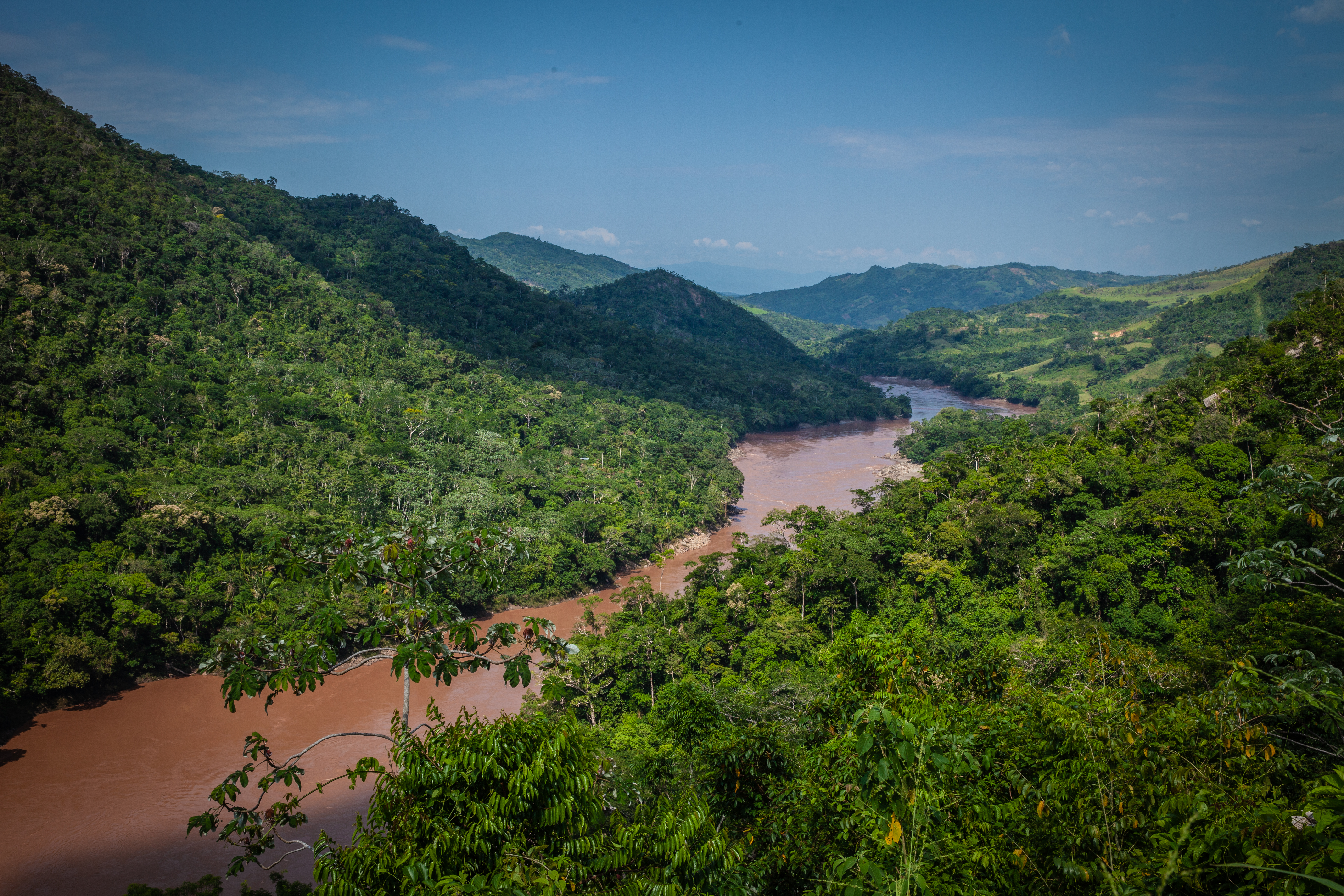 In 2018, USAID launched the second-annual Digital Development Awards (the “Digis”) to recognize USAID projects that harness the power of digital tools and data-driven decision making. The Peruvian Digital Inclusion in the Peruvian Amazon was one of five winners chosen out of the 140 applicants. From 2013-2017, el Centro de Información y Educación para la Prevención del Abuso de Drogas (CEDRO) built 38 technology centers (telecenters) in the regions of San Martín, Huánuco and Ucayali. To date, CEDRO has increased connectivity in 42 communities. More than 5,000 citizens—58 percent of which are women—received training from the telecenters in digital literacy, and nearly 5,200 women received training in financial literacy. Photos by Jack Gordon for USAID / Digital Development Communications